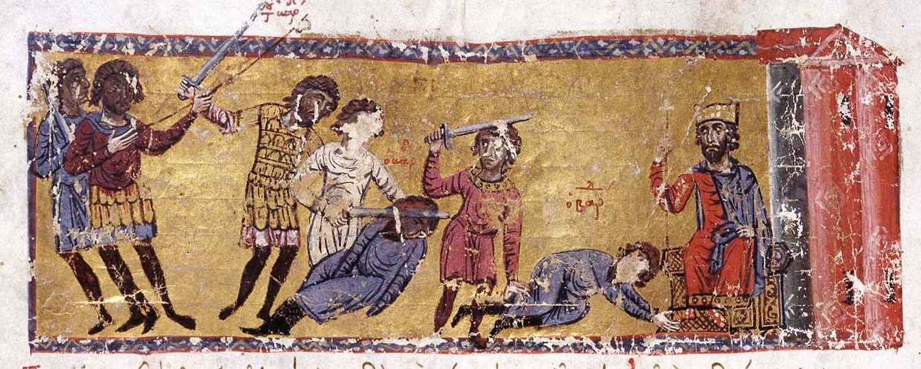 The murder of the Caesar Bardas , in the presence of Emperor Michael III